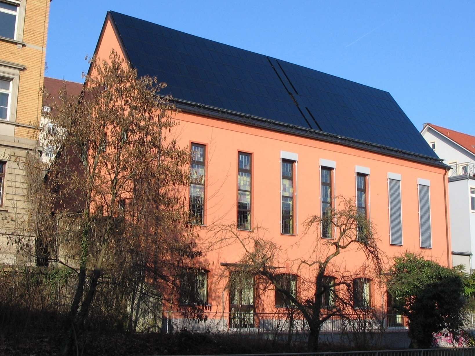 Tübingen, Friedenskirche. Roof with CIS-solar-cells.